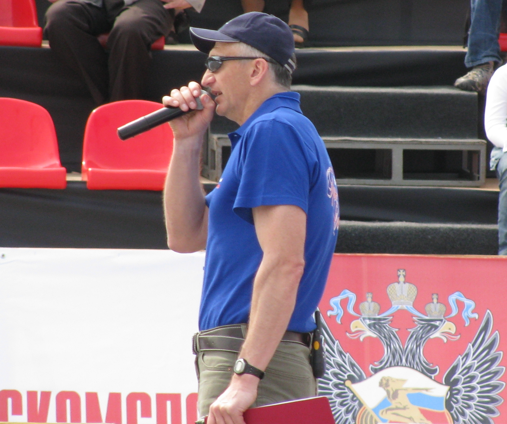 Russian sport broadcaster Andrei Kondrashov on road cycling tourtament Five rings of Moscow